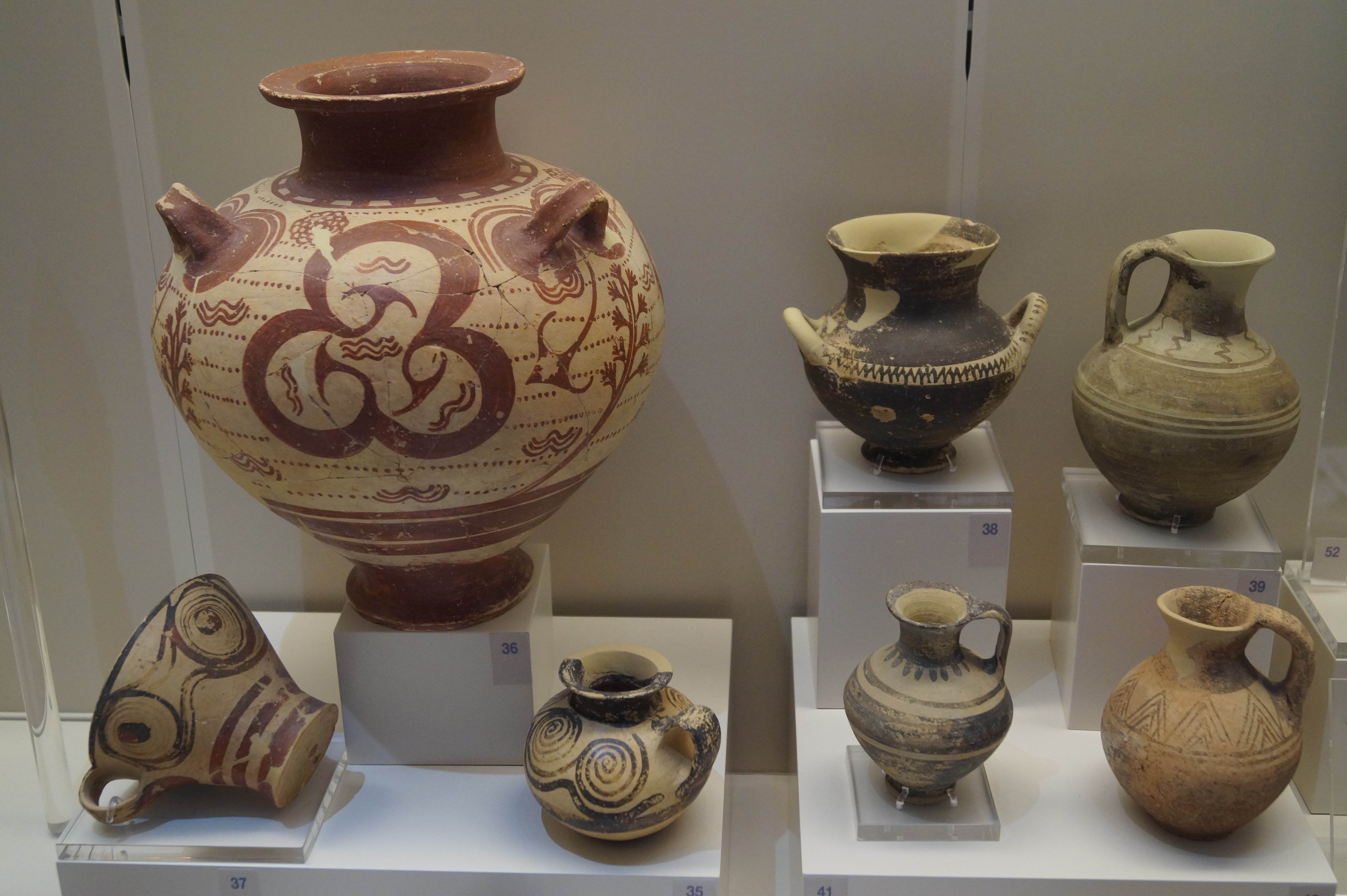 Nafplio, Argolis, Greece: Archaeological Museum: Findings from the chamber tombs of the mycenaean cemetery of Paleo Epidavros (LH II-LH III B1, 15th-11th cent. BC).